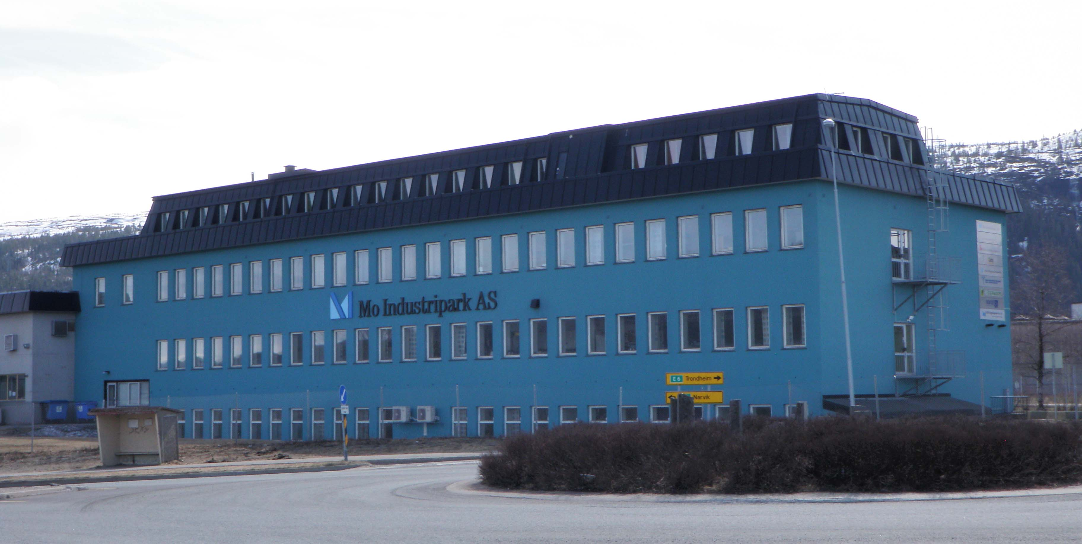 Building at the factory complex Mo Industrial Park in Mo i Rana, Rana, Nordland, Norway.